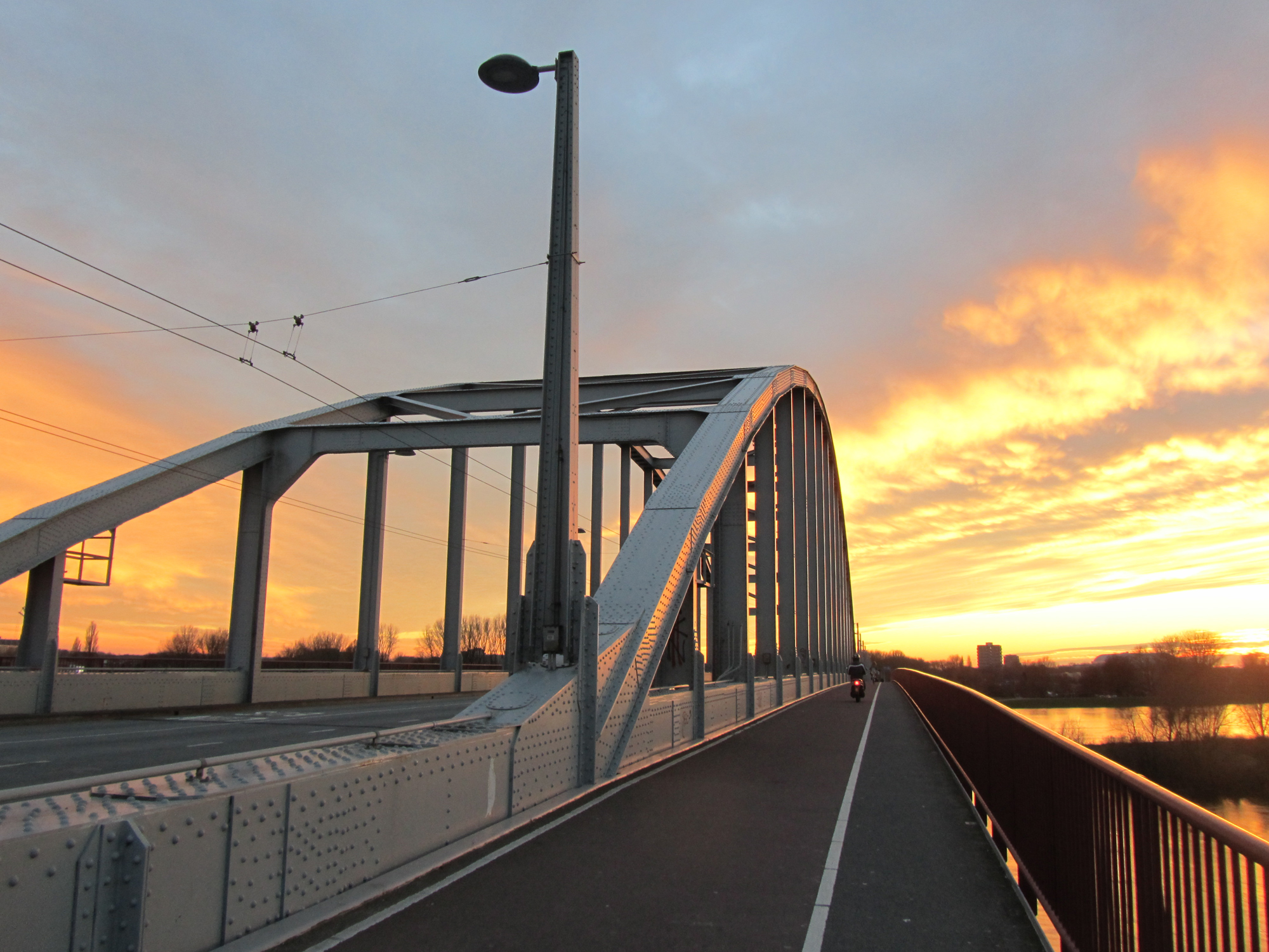 The John Frostbrug bridge, the "bridge too far" which played a key role in the Battle of Arnhem in 1944.